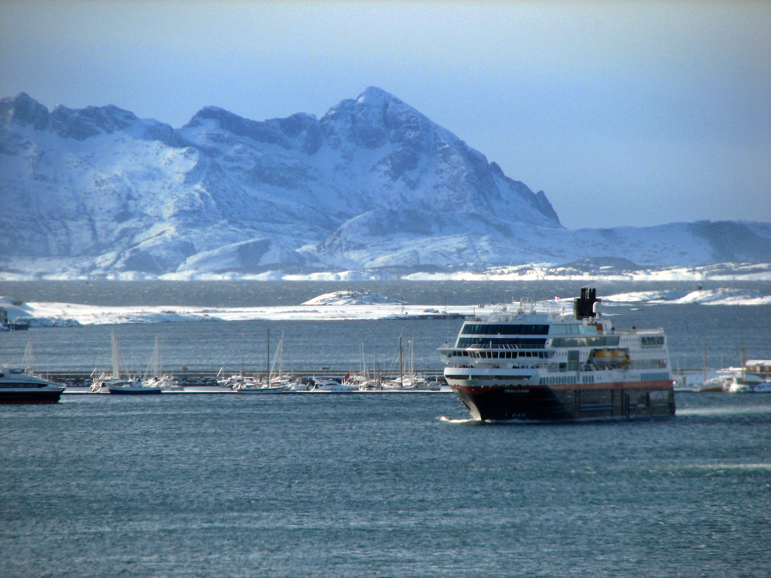 Coastal Steamer "Trollfjord" arrives in Bodø